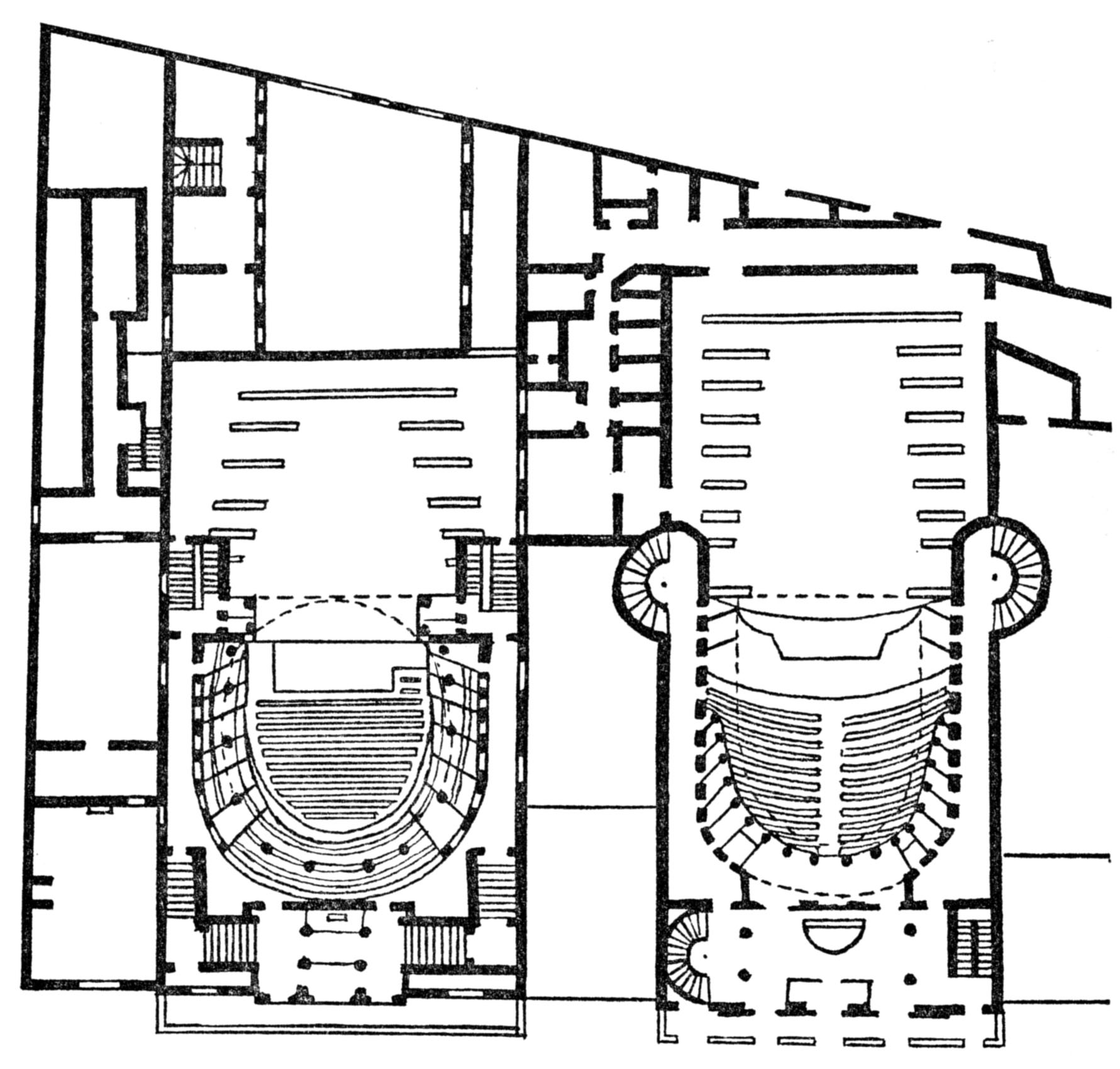 Plans of the Théâtre de l'Ambigu-Comique (left; opened 1769) and the Théâtre de la Gaîté, originally known as the Théâtre du Nicolet, ou des Grands Danseurs (right; opened 1764), on the Boulevard du Temple.